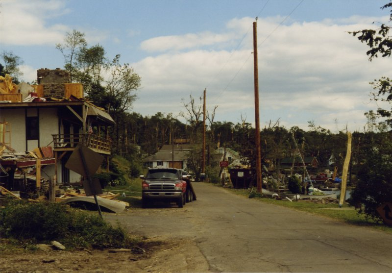 Damage to structures Lake Carey, PA area.